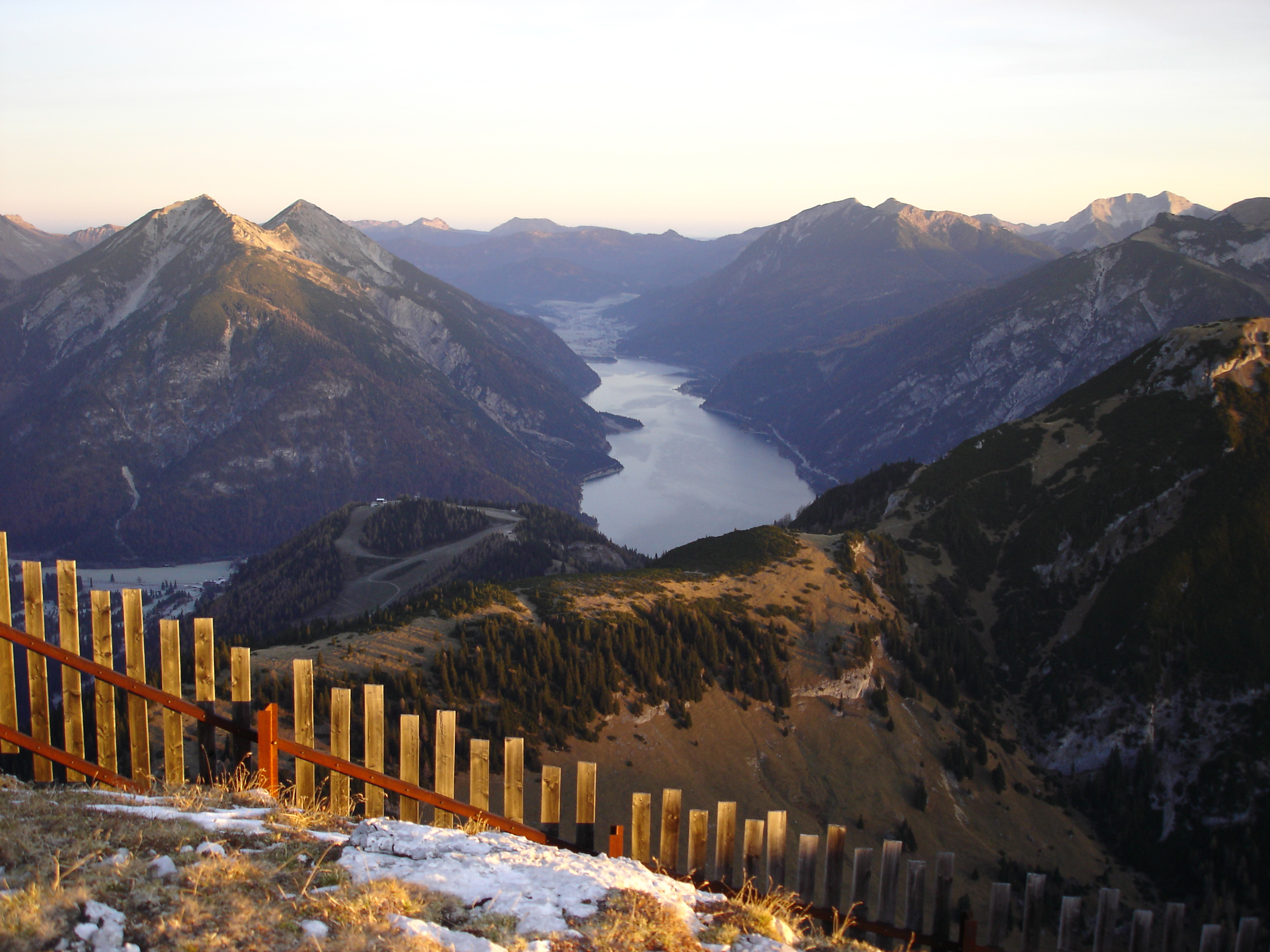 View from the Stanser Joch to the Achensee, left side of the lake the Karwendel with Seebergspitze 2085 (left) m and Seekarspitze 2053 m (right), right side of the lake the Rofangebirge